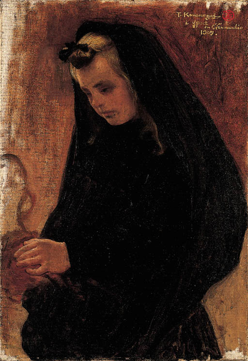 Norumandi no hama shusaku (Study for Beach in Normandy). Signed and dated T. Kanokogui Takeshi à Yport en Normandie 1907; titled, signed, sealed and dated on verso by the artist. Oil on canvas, 54 x 37 cm